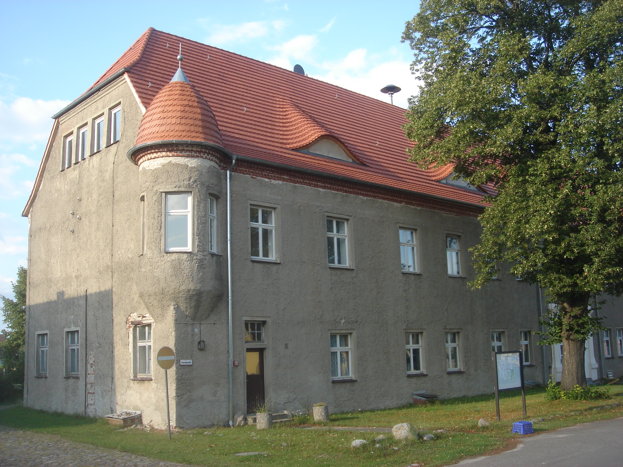 Pudagla Manor House on Usedom Island, once a royal residence of Pomeranian dukes, under reconstruction in summer 2014.